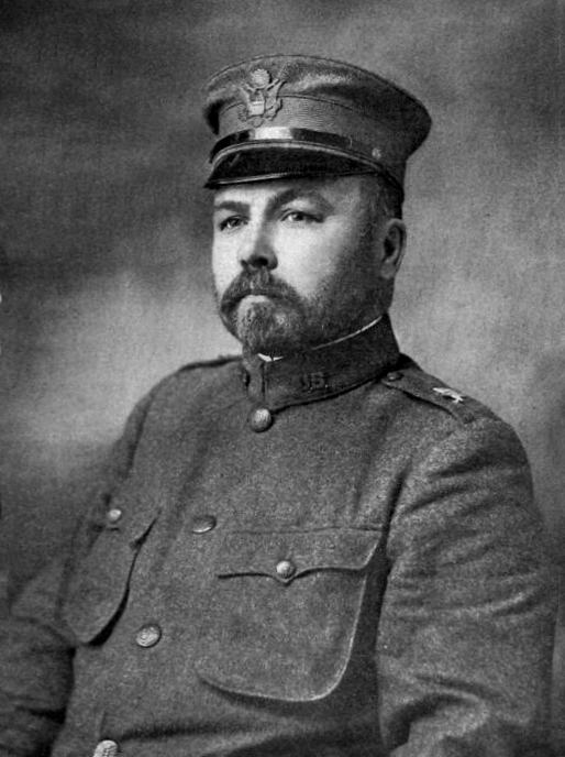 Frederick N. Funston (September 11, 1865 – February 19, 1917)